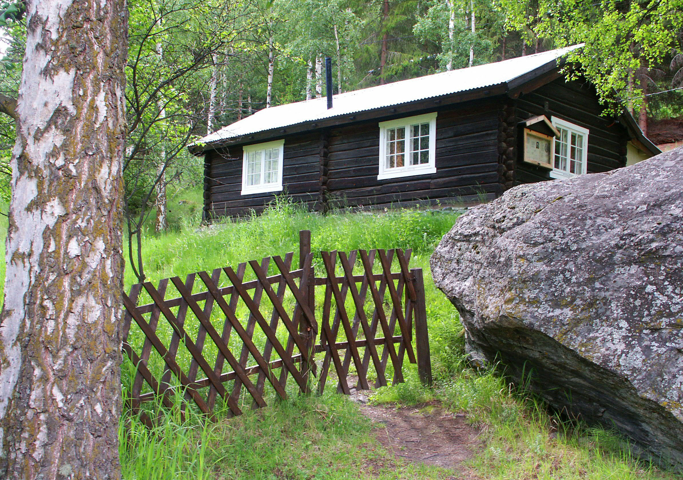 Picture from the cotters subfarm in Lom, the birthplace and home for the Norwegian poet Tor Jonsson.